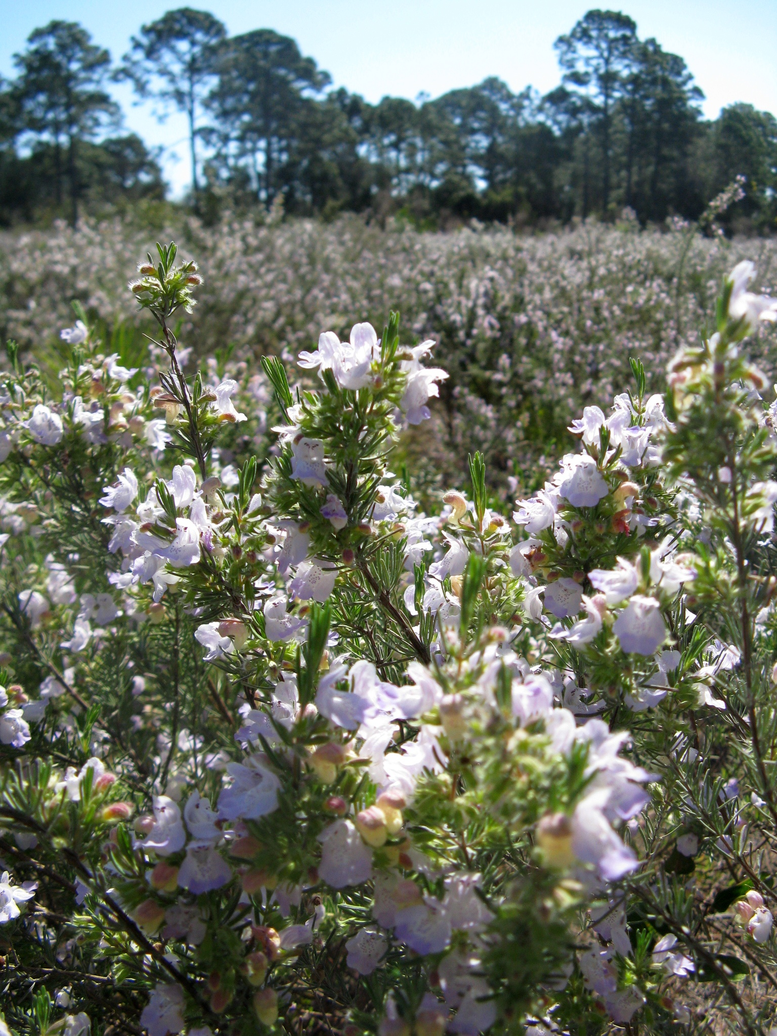 False Rosemary blooming in a field which was logged several years ago. Most likely Conradina glabra. Photo by Charly